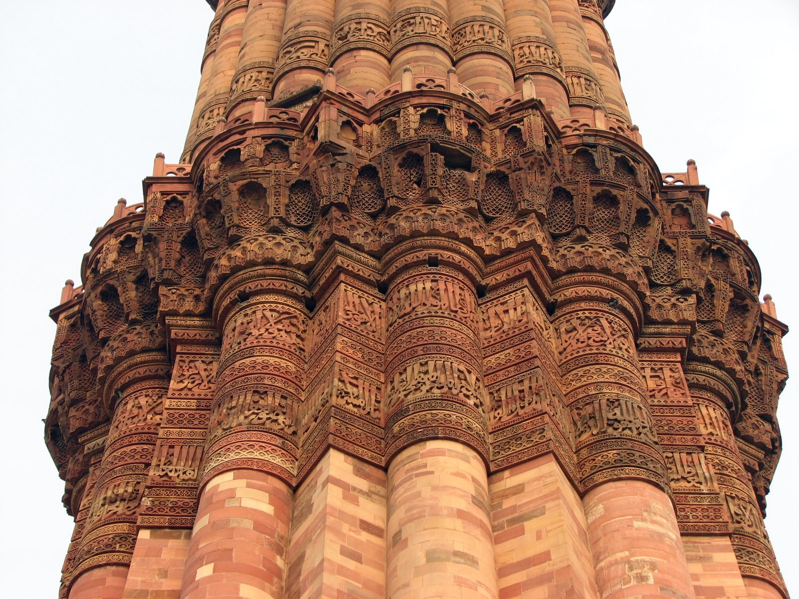 Balcony of Qutb Minar, Delhi.